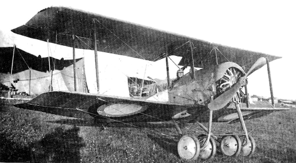 Photo of Sikorsky S-16 biplane front